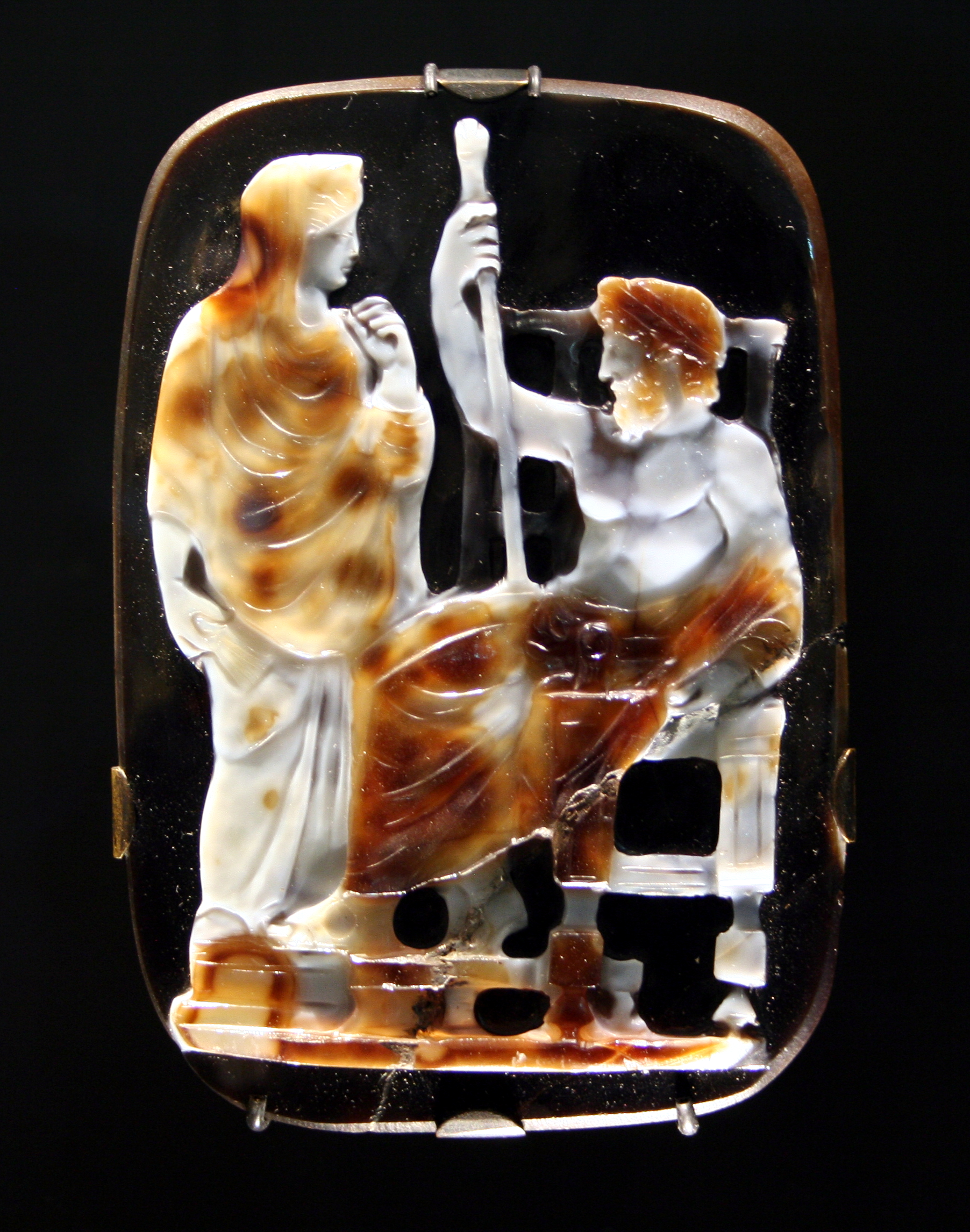 Cameo of Marc Aurel and Faustina minor as Iuppiter and Iuno, 170/185 AD; Sardonyx, h 14,6 cm, w 10,6 cm; State museum Württemberg, Stuttgart, Exhibition "Wahre Schätze"